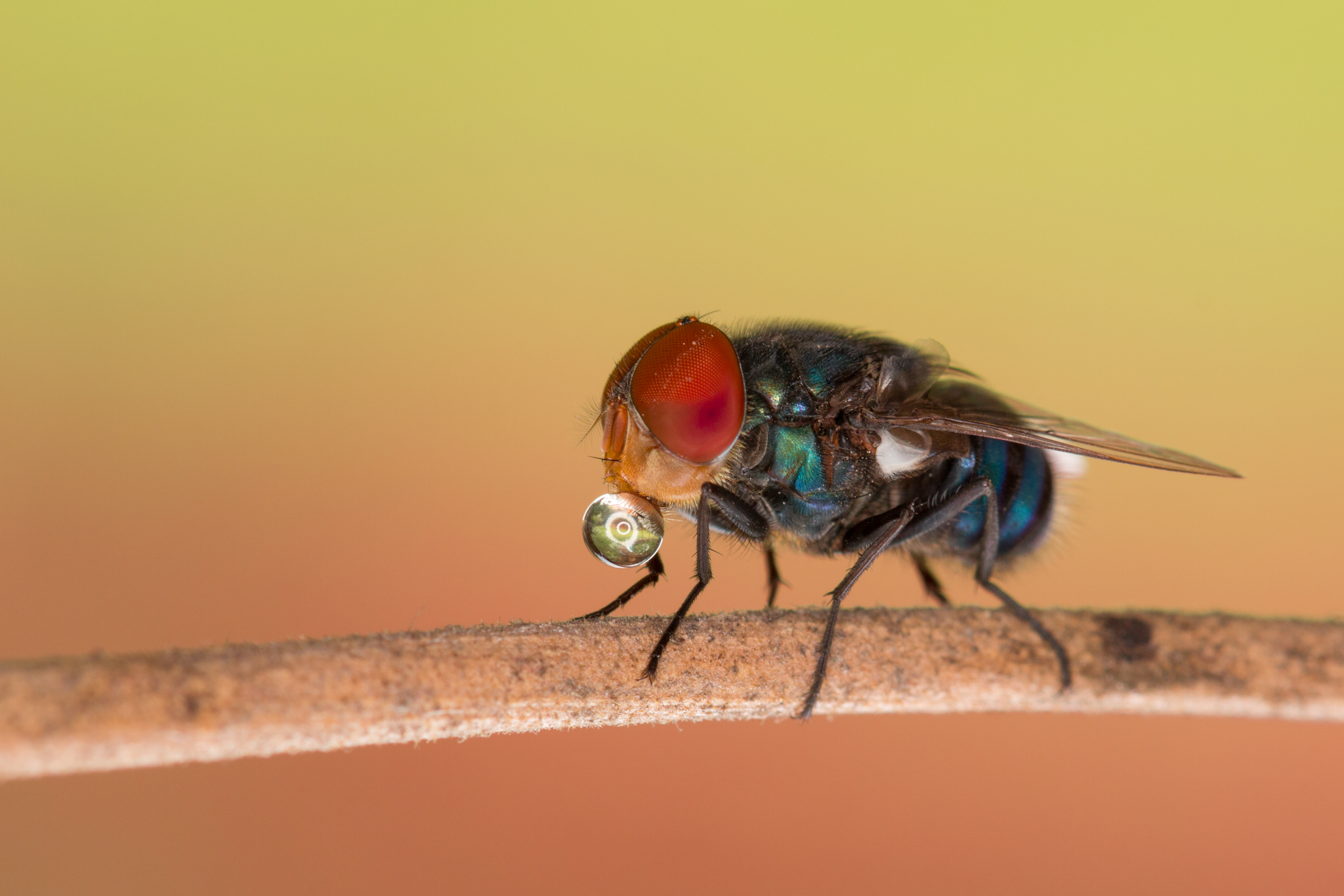 Blue Bottle Fly, Baldha Garden